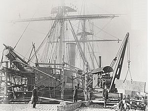 British ironclad Royal Oak building at Chatham ca. 1862